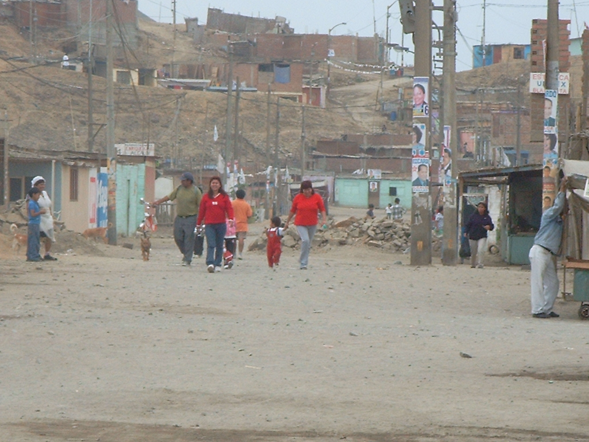 Street in Ventanilla, Callao, Peru